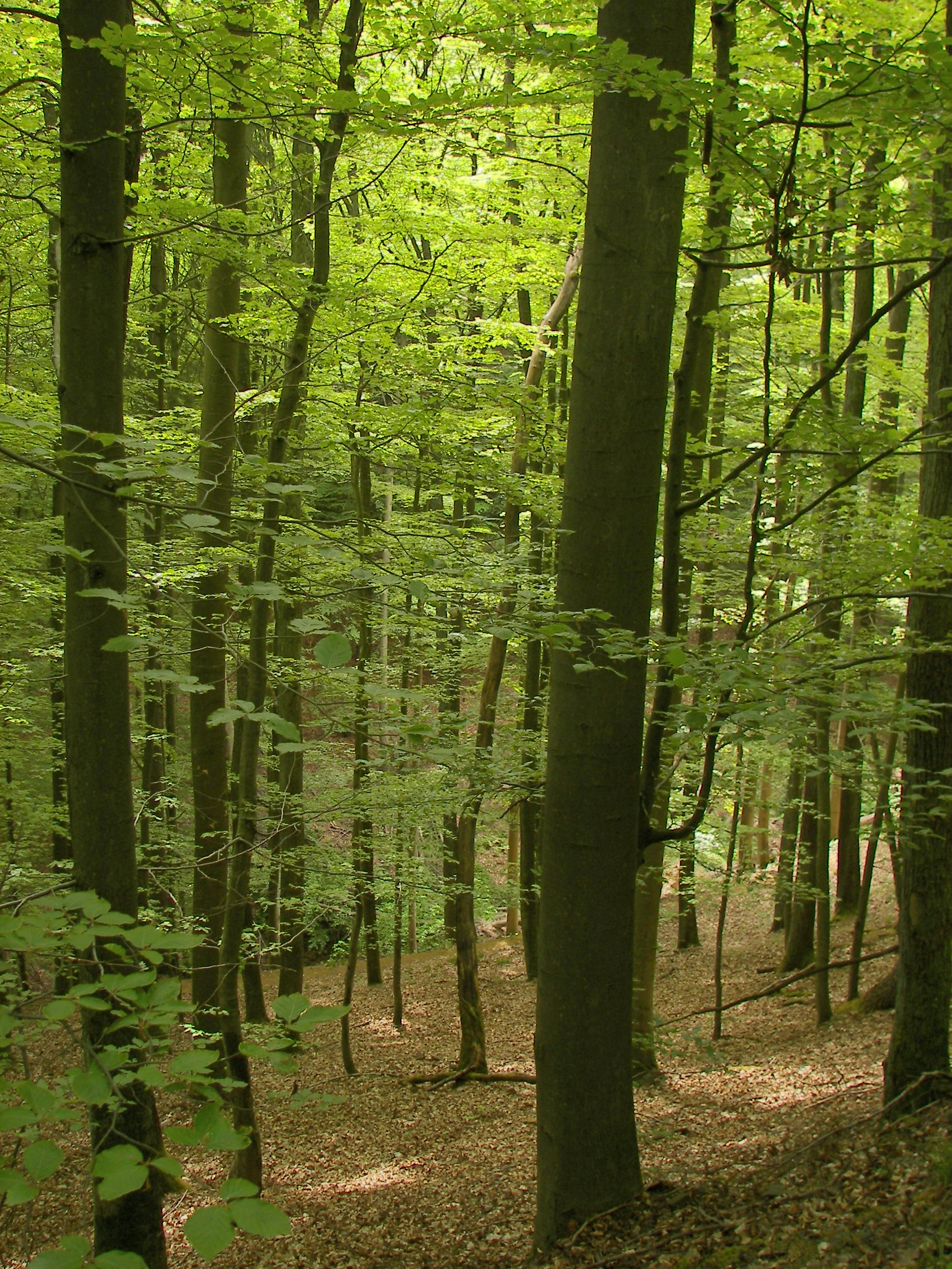 Kellerwald Urwaldsteig near Salzkopf, Hesse, Germany